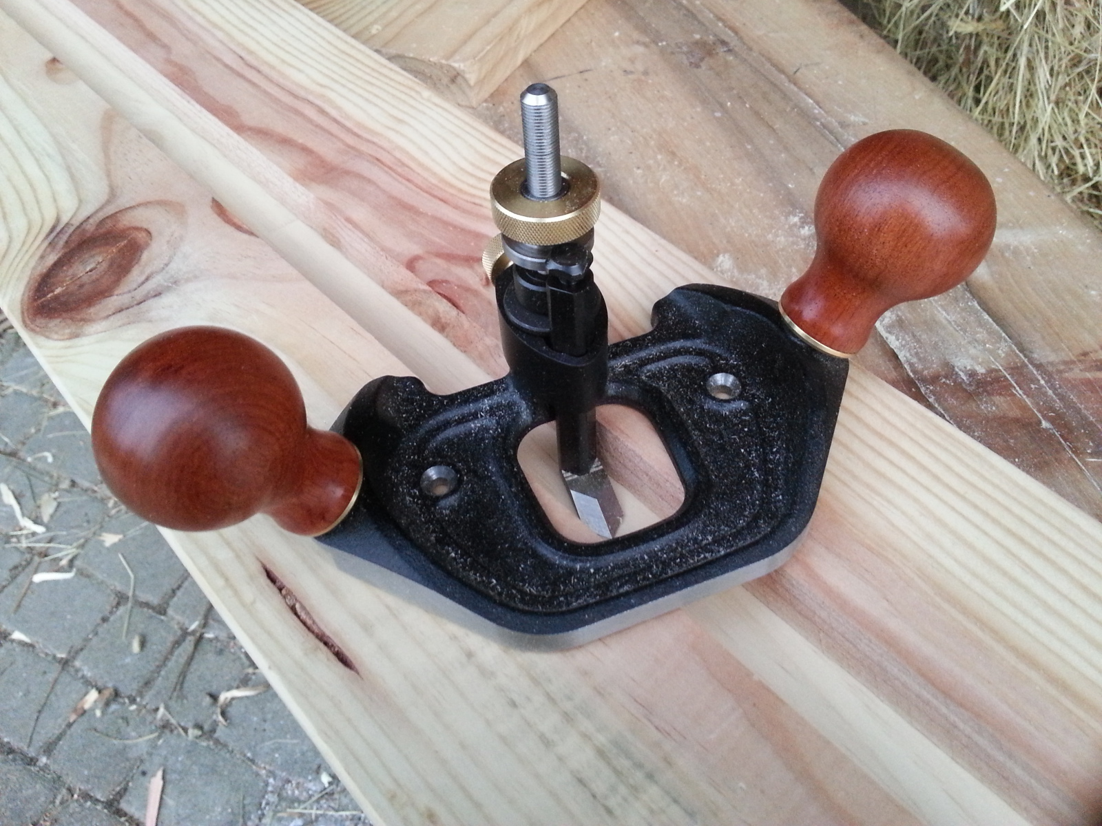 veritas router plane